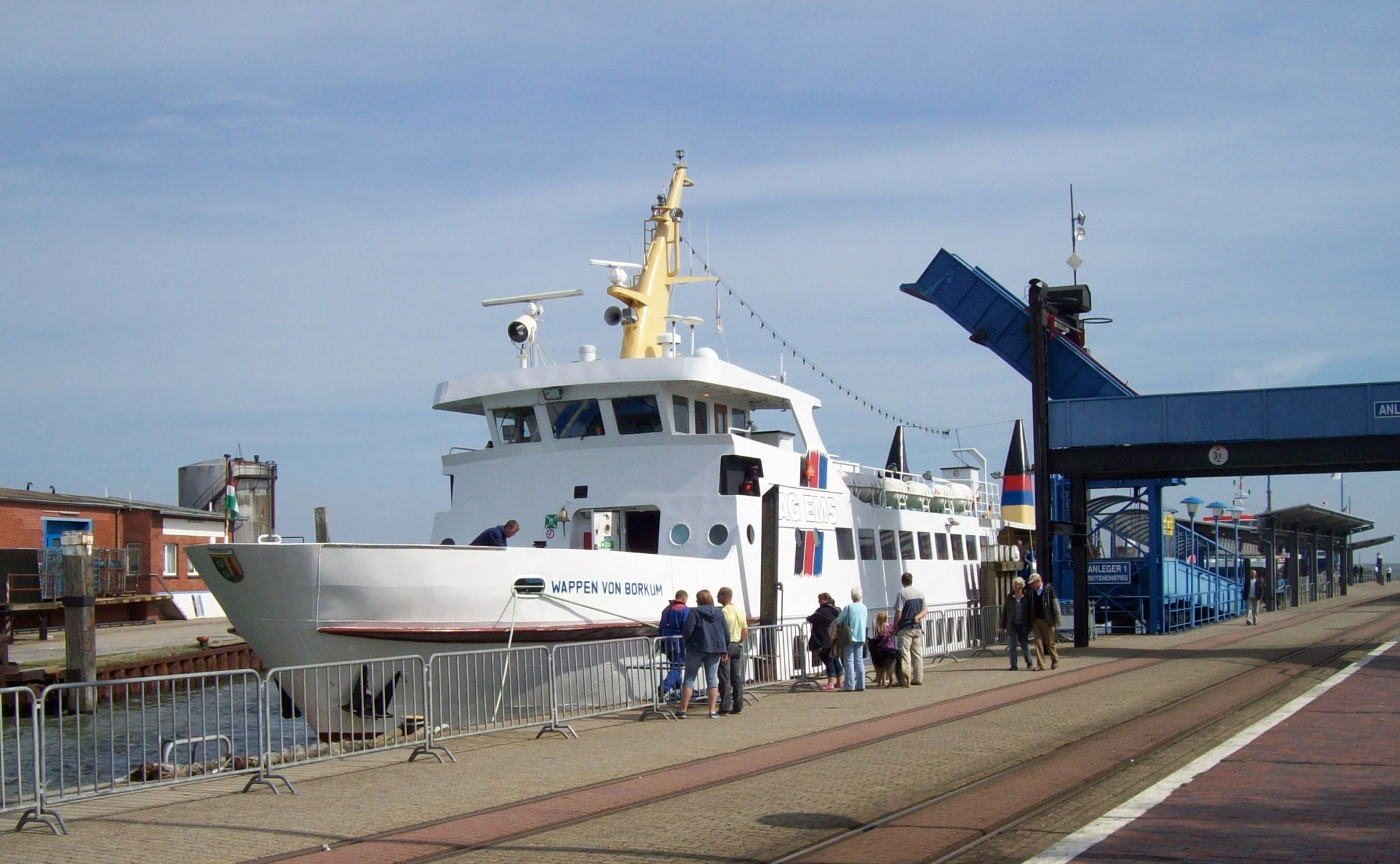 "Wappen von Borkum", Ferry in the harbour of the North Sea Island Borkum